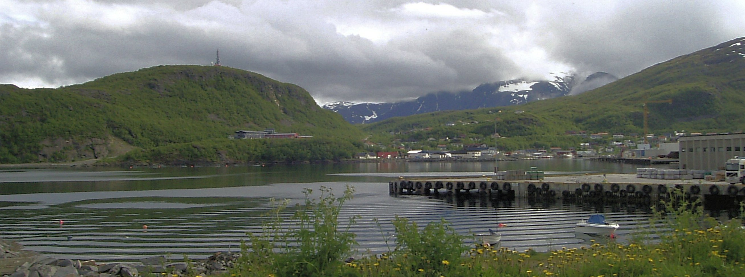 Skjervøy port, Troms, Norway